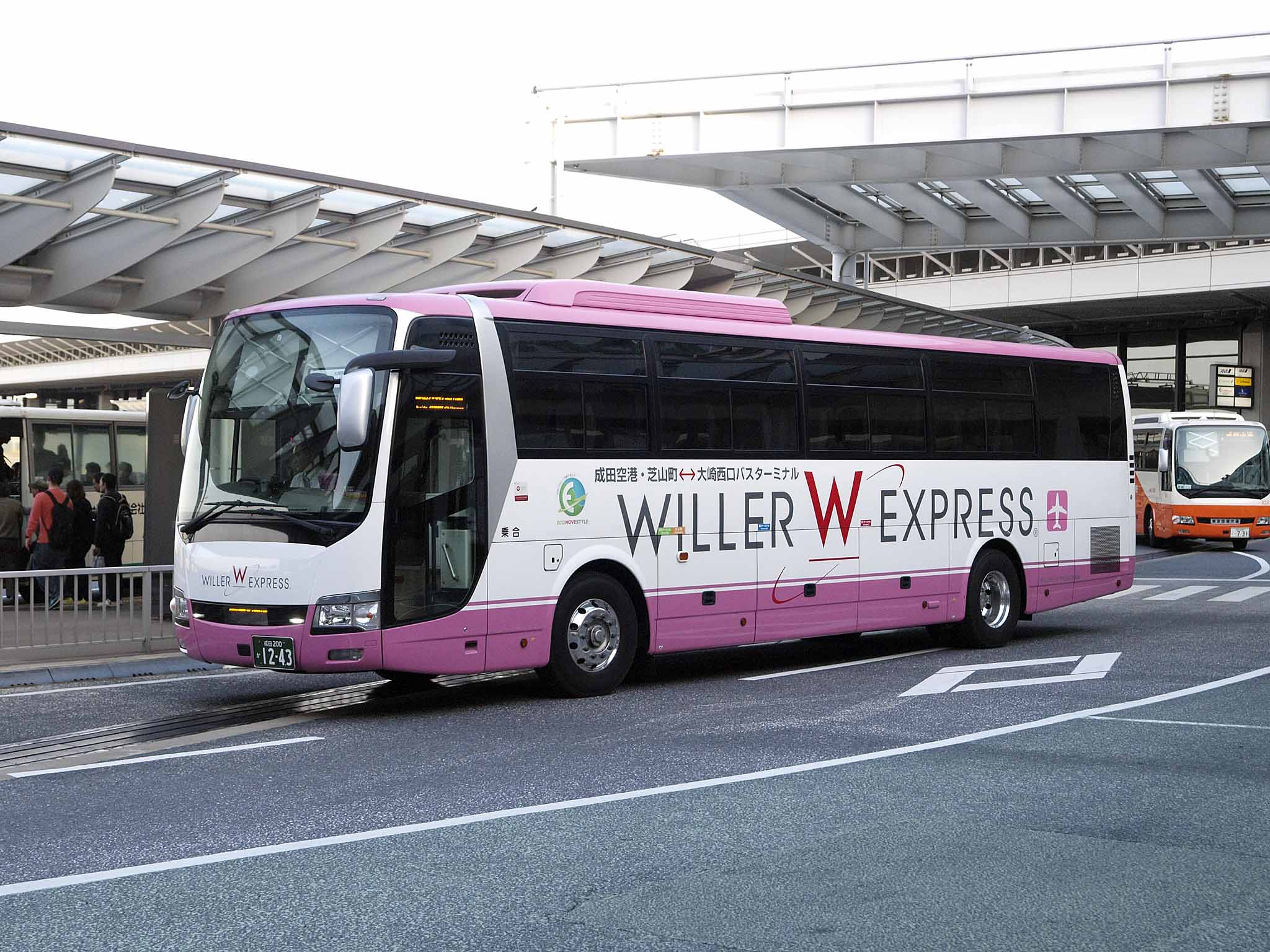 Fleet of Narita Shuttle, operated between O-saki Station, Tokyo and Narita International Airport. Model: Mitsubishi Fuso Aero Ace MS96 License plate: CBR200 KA1243